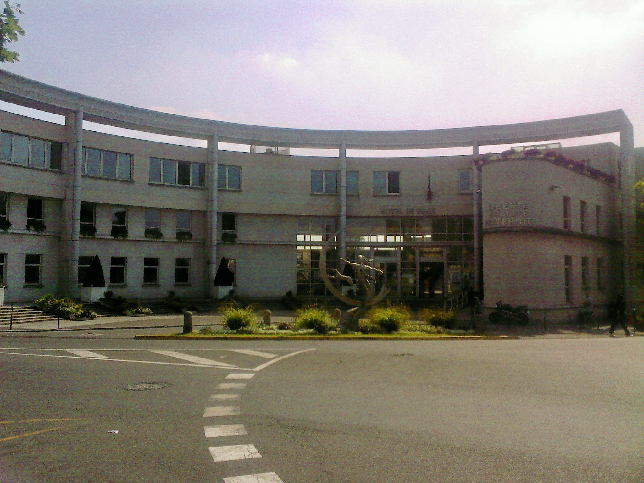 Town hall of Goussainville, Val-d'Oise, France